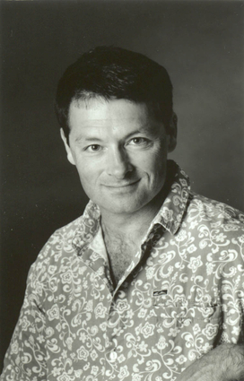 Photo of author Jonathan Harlen